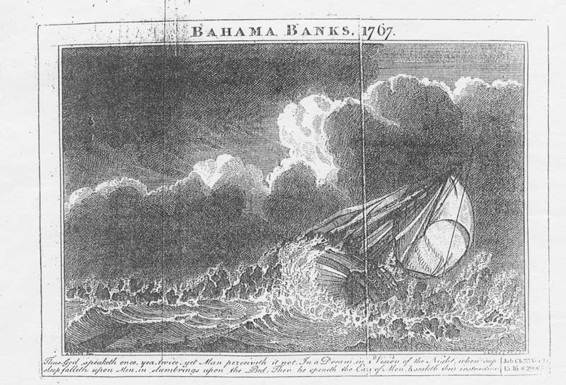 Bahama Banks. 1767. From The Interesting Narrative of the Life of Olaudah Equiano, or Gustavus Vassa, the African, published in 1794. Illustration between pages 204 and 205. Wreck of the sloop Nancy upon the Bahama Banks in 1767.